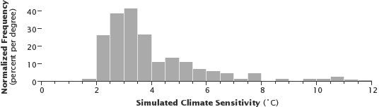 This image shows a frequency distribution of climate sensitivity, based on model simulations. Based on the cited Lindsey (2010) public-domain source: To understand how uncertainty about the underlying physics of the climate system affects climate predictions, scientists have a common test: they have the model predict what the average surface temperature would be if atmospheric carbon dioxide concentrations were to double pre-industrial levels (the climate sensitivity).They run the simulation thousands of times, each time changing the starting assumptions of one or more processes. When they put all the predictions from these thousands of simulations onto a single graph, what they get is a picture of the most likely outcomes and the least likely outcomes.The pattern that emerges from these types of tests is interesting. Few of the simulations result in less than 2 °C of warming—near the low end of estimates by the Intergovernmental Panel on Climate Change (IPCC). Some simulations result in significantly more than the 4 °C, which is at the high end of the IPCC estimates.This pattern (statisticians call it a “right-skewed distribution”) suggests that if carbon dioxide concentrations double, the probability of very large increases in temperature is greater than the probability of very small increases.Our ability to predict the future climate is far from certain, but this type of research suggests that the question of whether global warming will turn out to be less severe than scientists think may be less likely than whether it may be far worse.